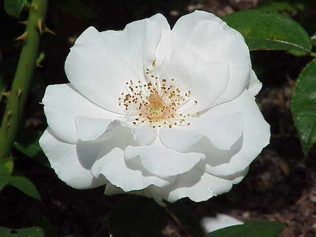 Rosa sp. Maria Mathilda, Lens 1979, Image no. 189